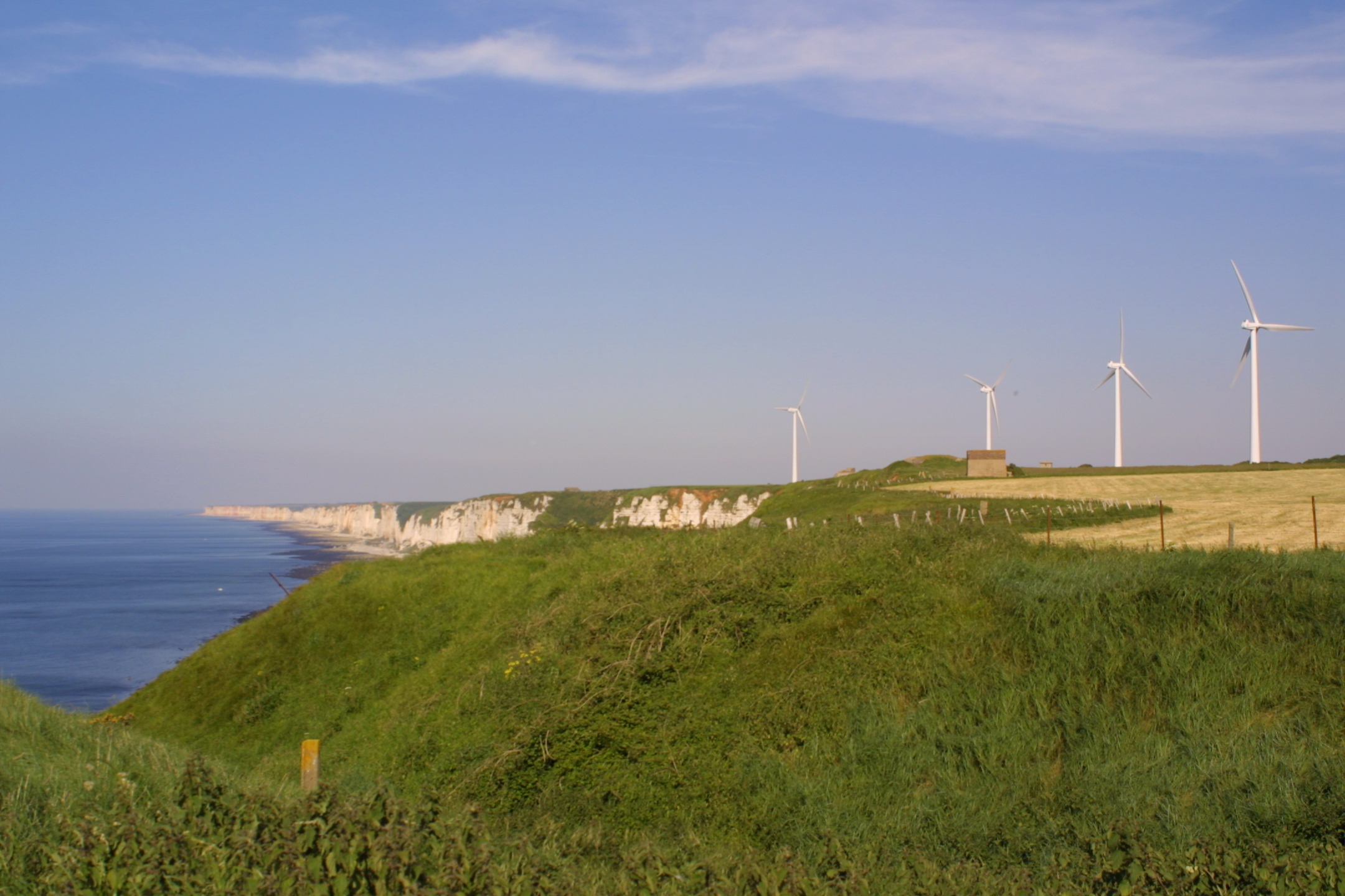 Fécamp wind farm - 5 windturbines